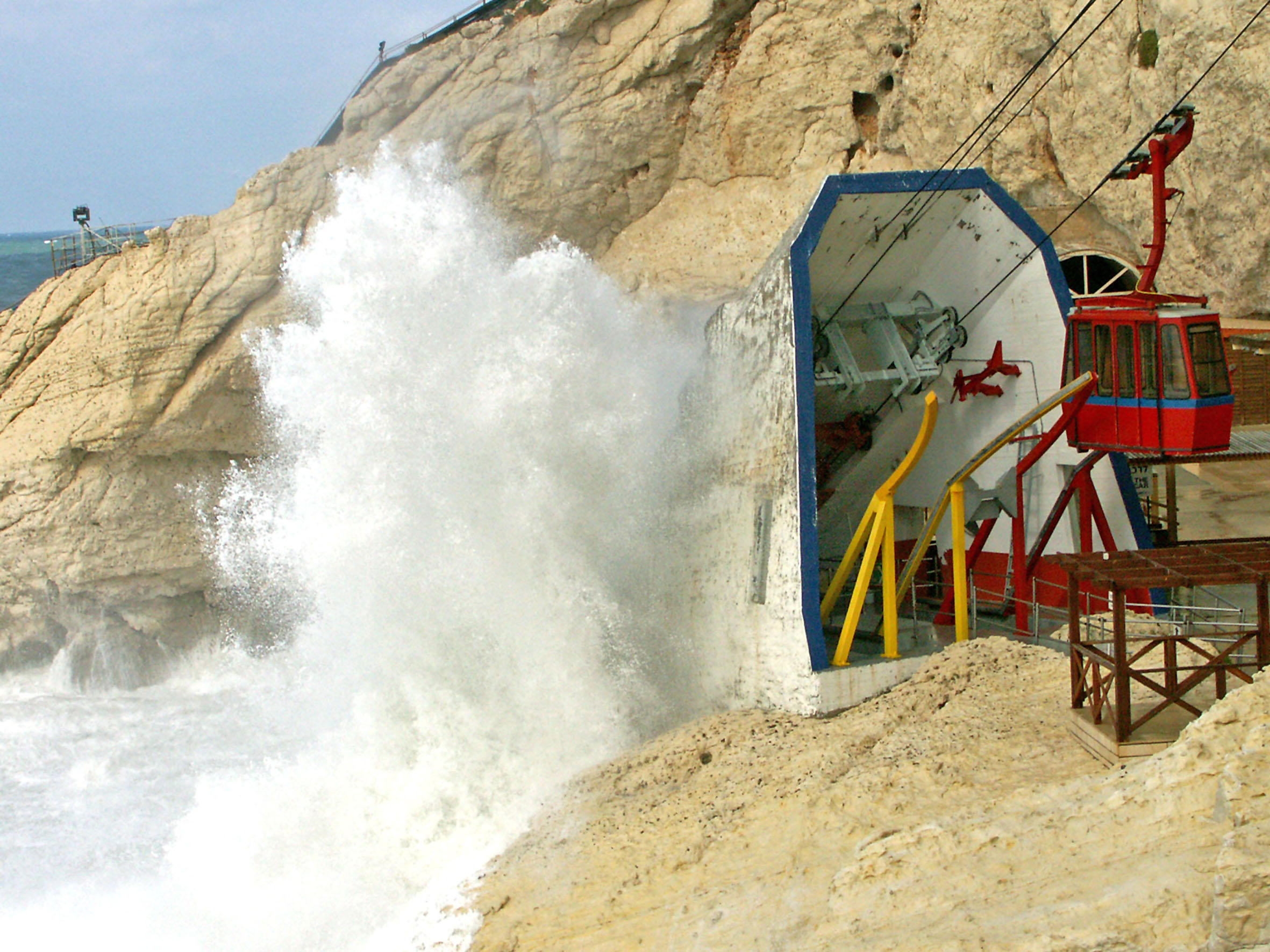 Lift in Rosh HaNikra